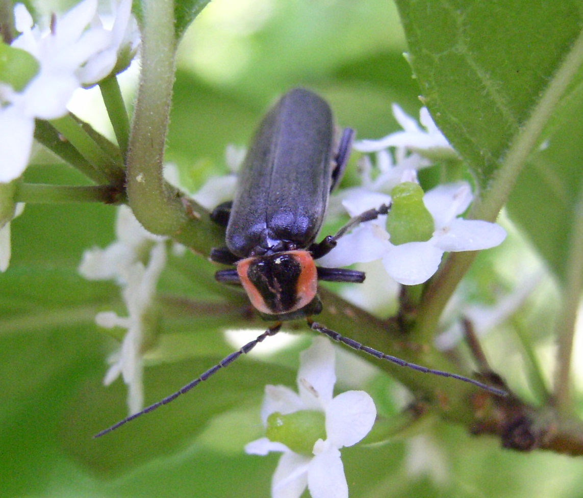 Carolina cantharid beetle, Rhaxonycha carolina. Churchville Nature Center, Bucks County, Pennsylvania, USA.